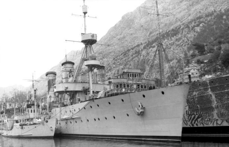 Captured vessels of the Yugoslavian Navy, Bay of Kotor. The cruiser Dalmacija (ex. German Niobe, later used by the Italians as Cattaro, then by the Germans as Niobe) and small minelayers Mljet and Meljine (left)